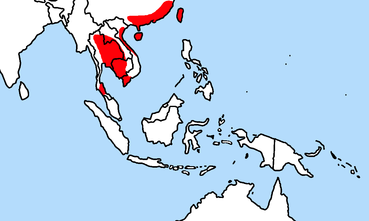 Lesser rice-field rat (Rattus losea), distribution map